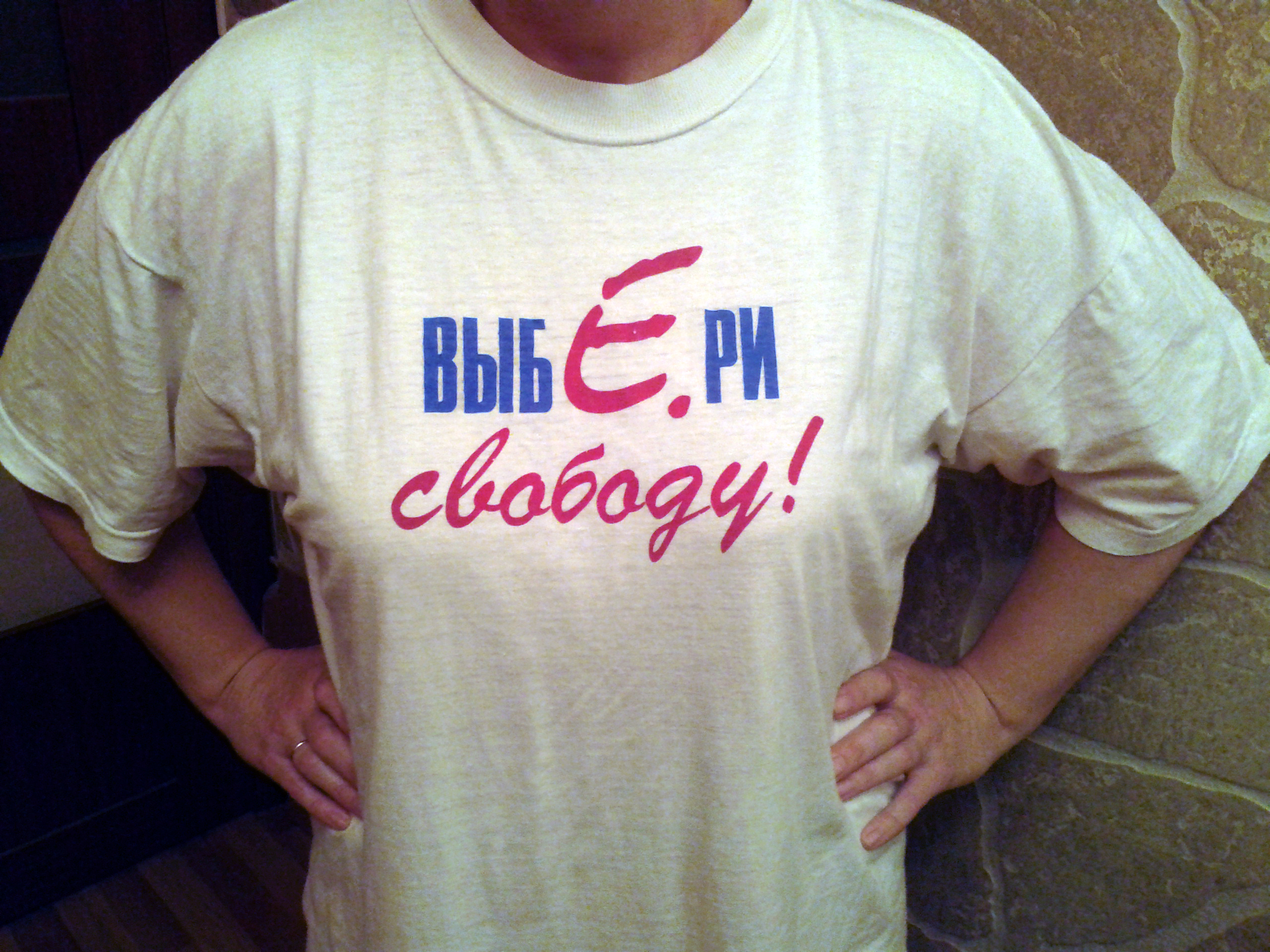 A T-shirt for the 1996 Boris Yeltsin pre-election campaign "Vote or Lose" with the text "ChoosЕ. the Freedom!".